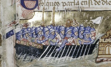 Crusaders arrive at Constantinople